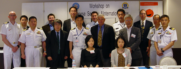 Many researchers attended Japanese Security and International Law at the Command and Staff College, Maritime Self-Defense Force in Meguro Ward, Tōkyō Metropolis on September 16, 2015.